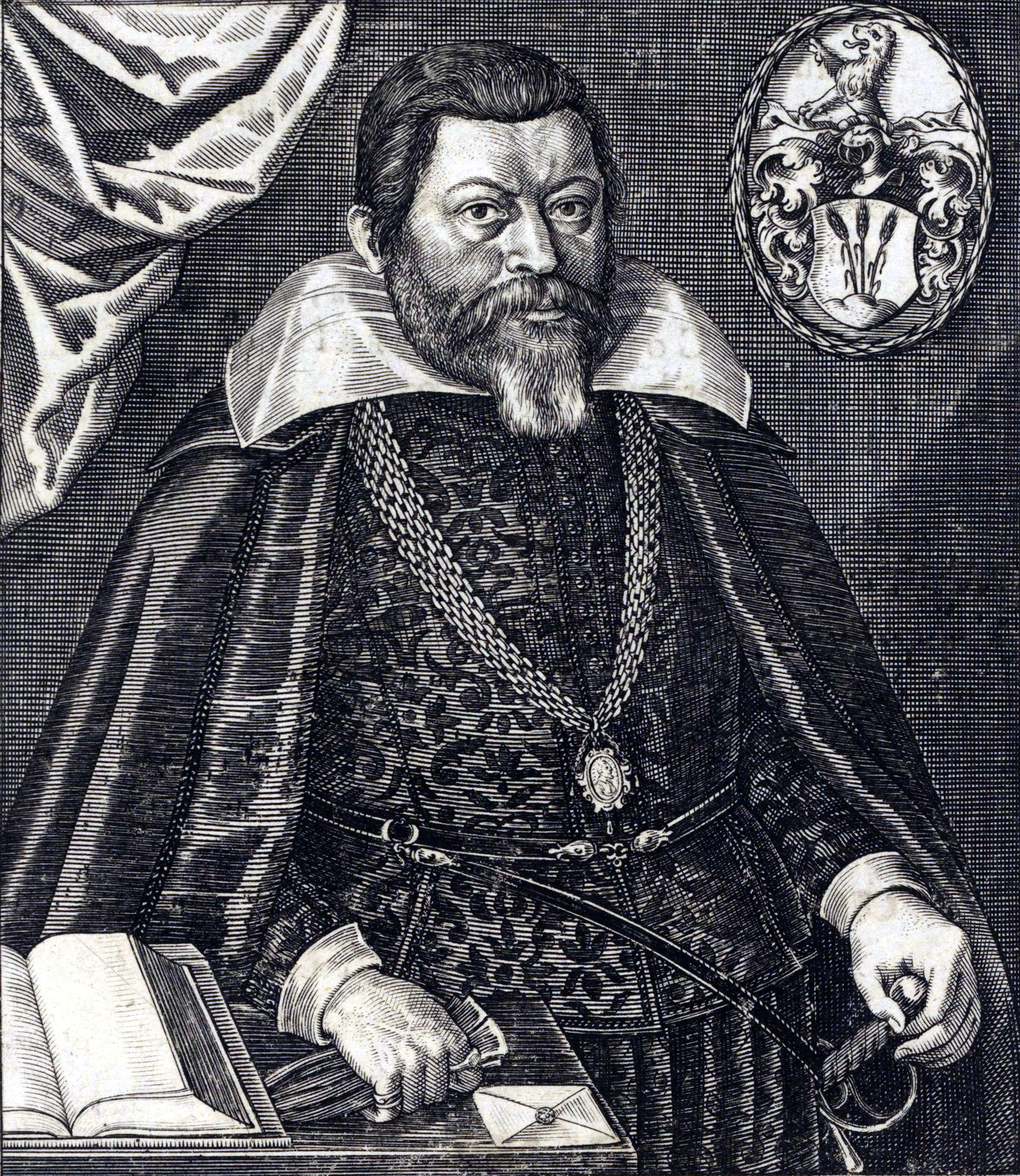 Dominicus Arumaeus (1579-1637) german legal scholar